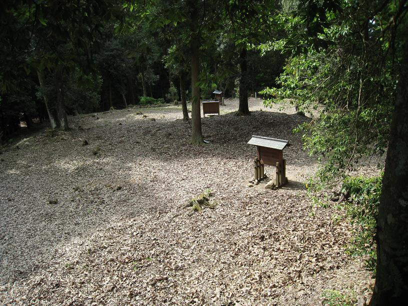 ruins of koriyama castle Basa Jawa: 郡山城本丸から二の丸を望む